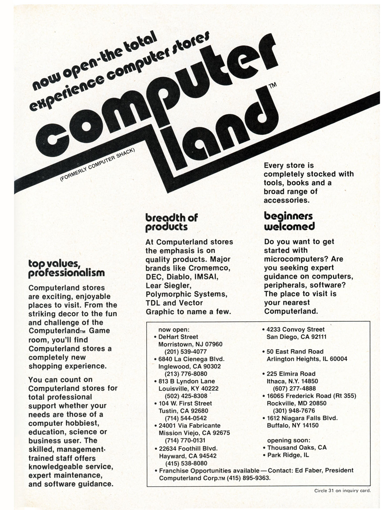 Computer Shack was incorporated September 21, 1976 by the founders of IMSAI and the first store opened in Hayward, California in December 1976. This early advertisement appeared in the July 1977 issue of BYTE magazine (page 107). Tandy Corp. felt the name was too similar to their Radio Shack brand and the name was changed to ComputerLand in June 1977.